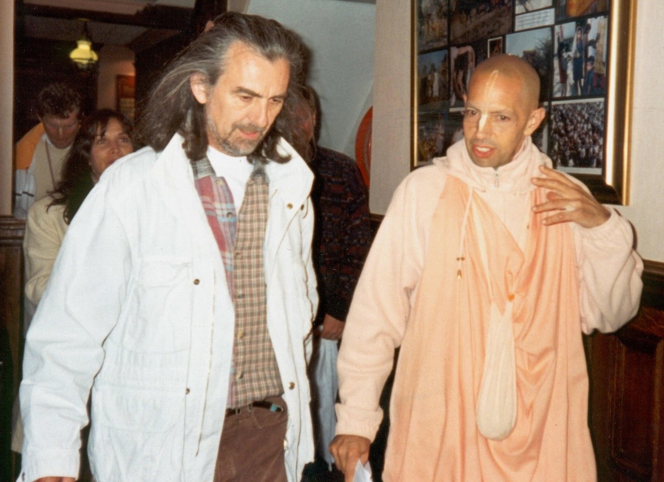 Mukunda Goswami is talking with George Harrison in the corridors of the Bhaktivedanta Manor